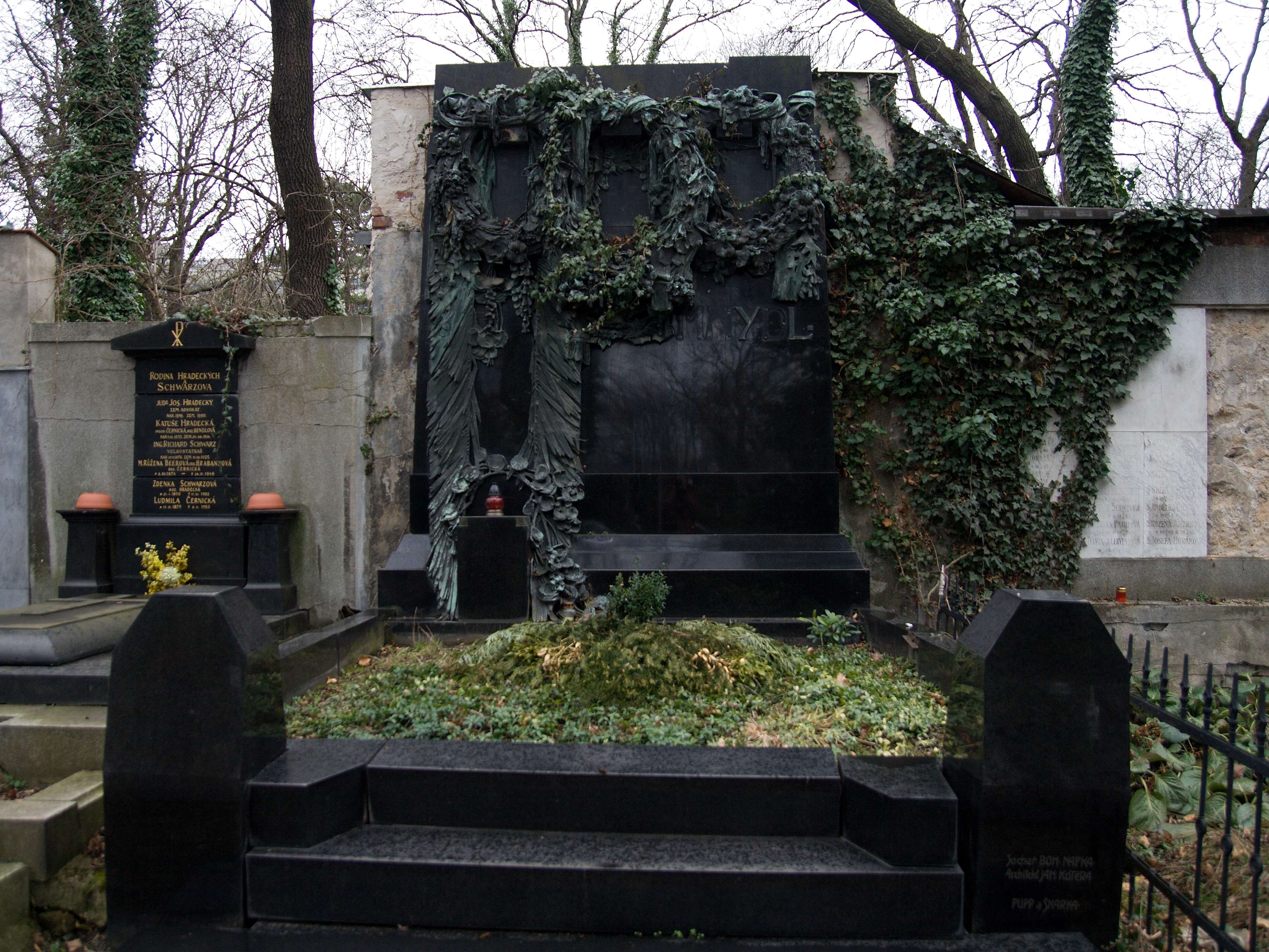 Olšanské hřbitovy Cemetery - Grave of Karel Maydl